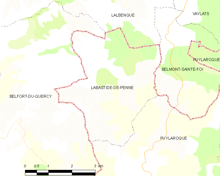 Map of French municipality Labastide-de-Penne